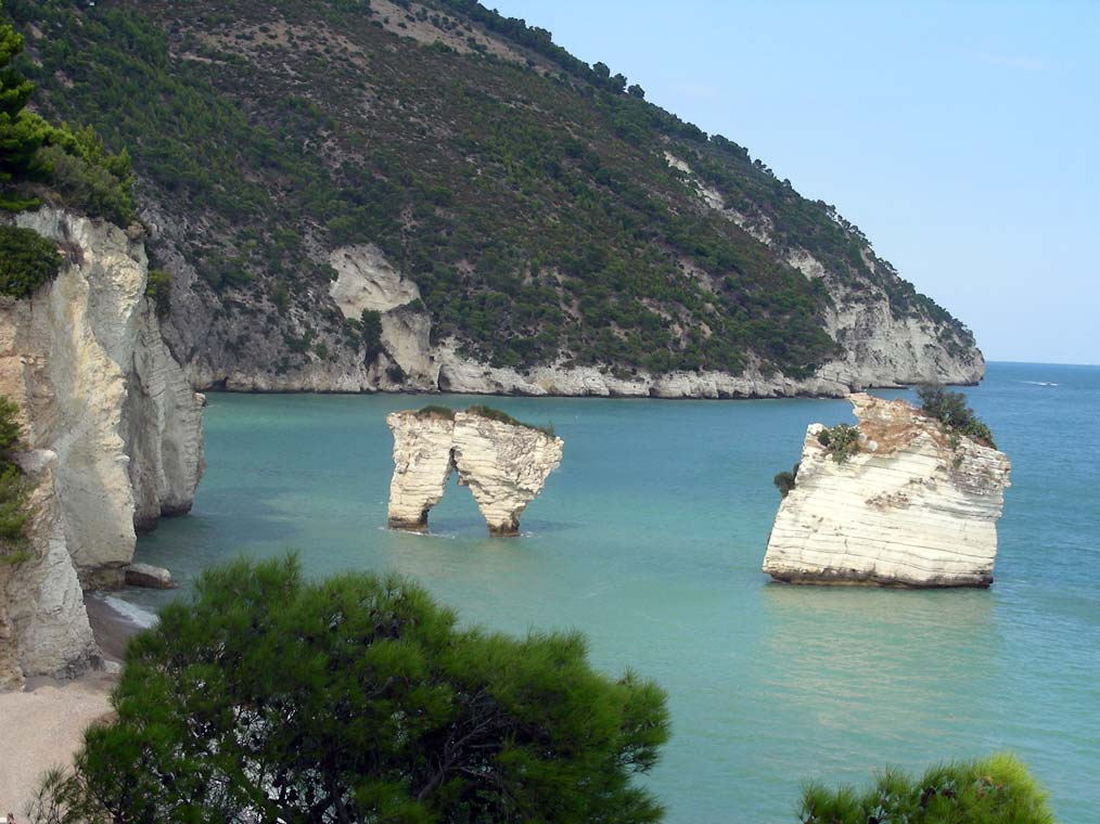 Italy, Gargano, on the coast between Mattinata and Vieste, Baia dei Faraglioni